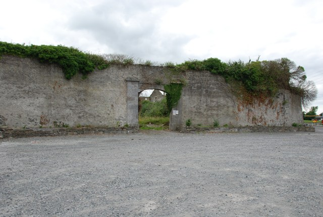 OLd Barracks Wall (Fort Falkland), West End, Banagher, Co. Offaly, Ireland.